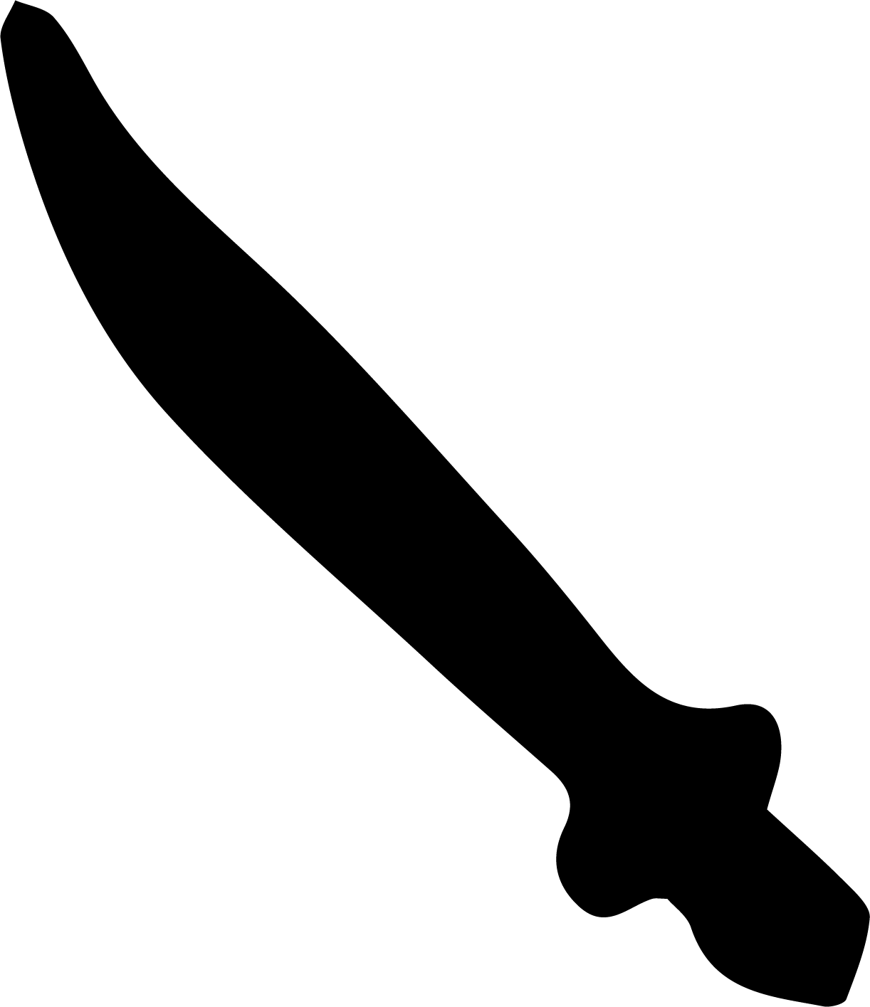 Symbol of the Chamber of Secrets expansion of the Harry Potter Trading Card Game